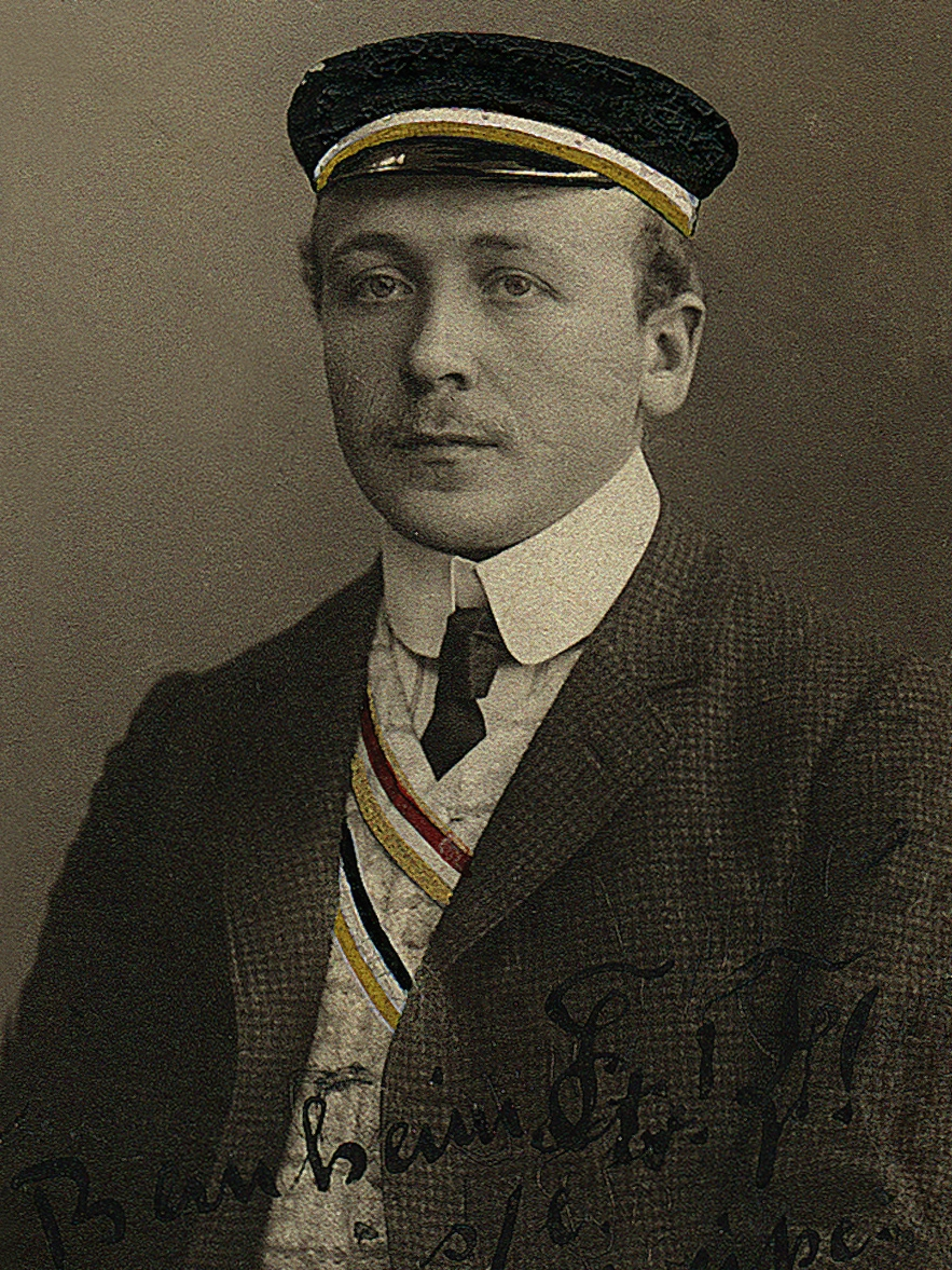 Picture of Ludwig Bernheim